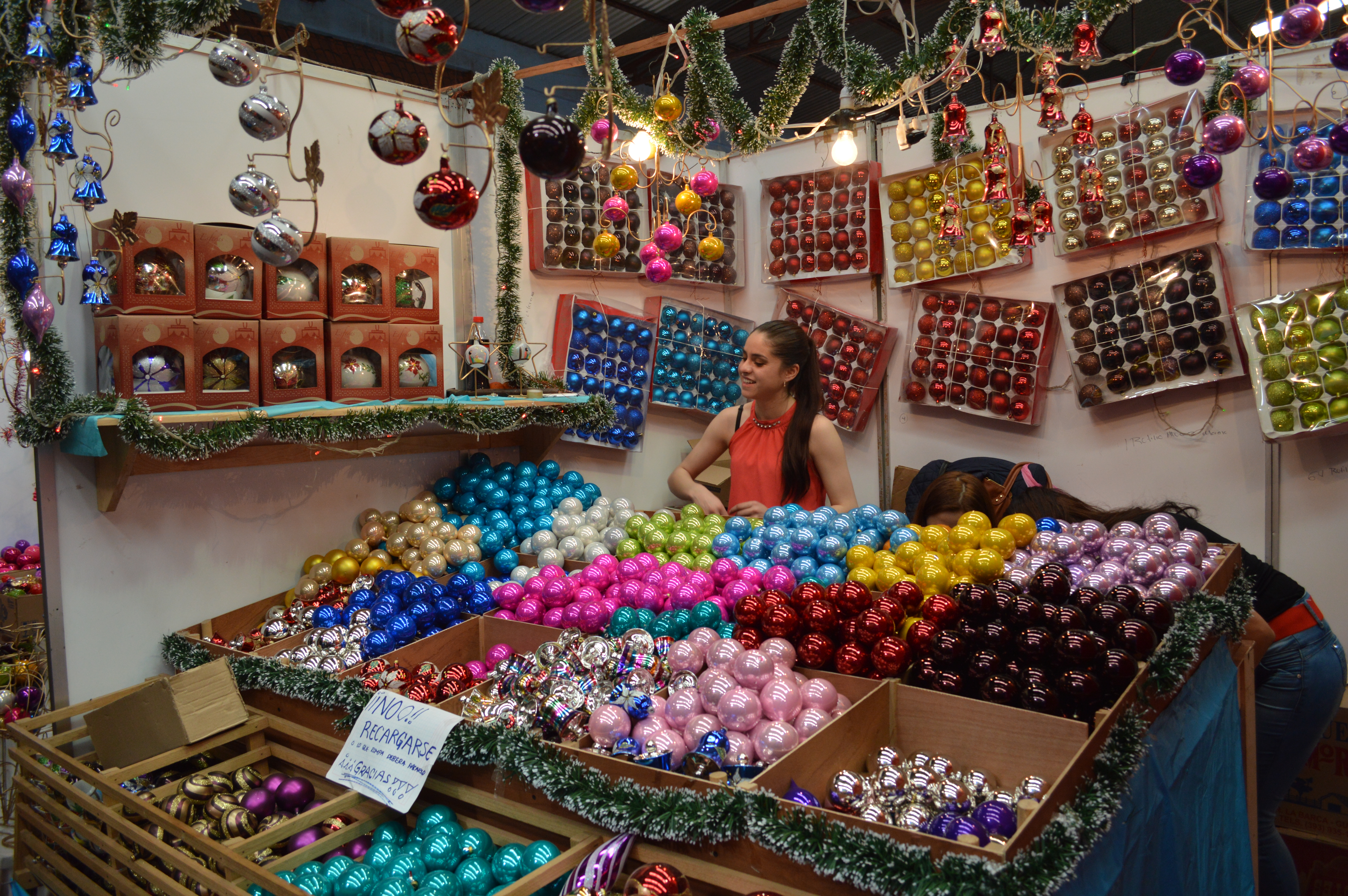 Blown glass Christmas ornaments at the Feria de Esfera in Tlapujahua, Michoacan